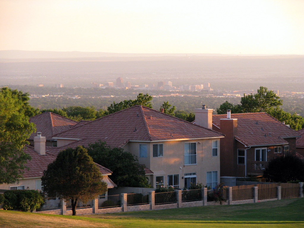 A view of a neighboring subdivision and downtown Albuquerque (in the distance) from my backyard in the Northeast heights quadrant of Albuquerque, New Mexico.